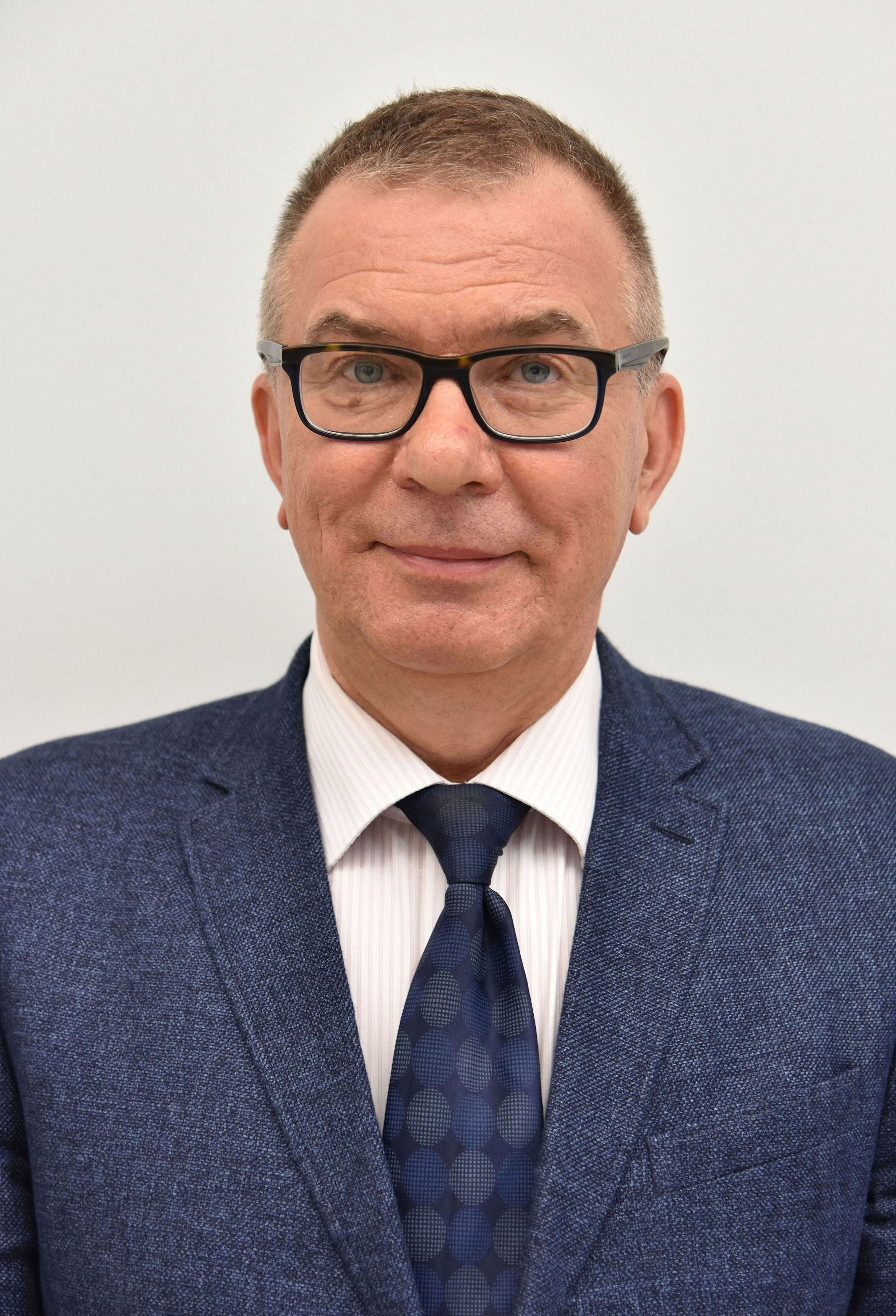 Polish MP Adam Abramowicz in the Sejm